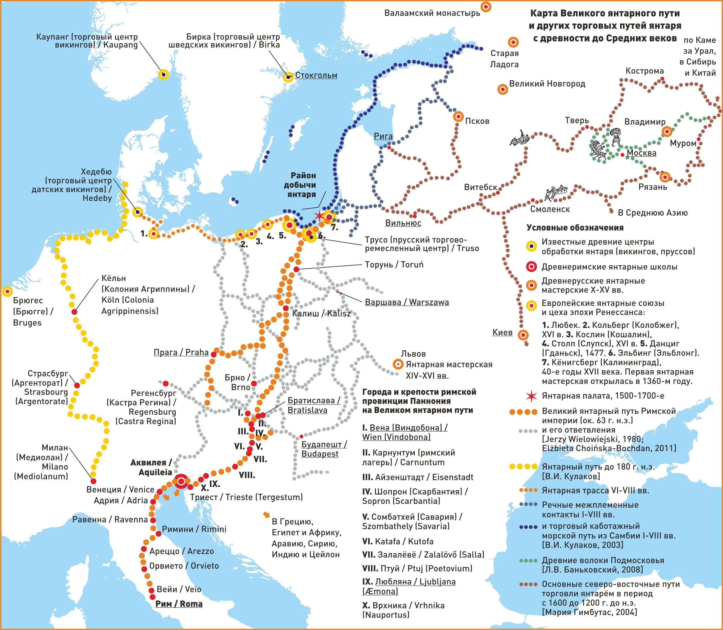 Amber Route Map (Evolution)